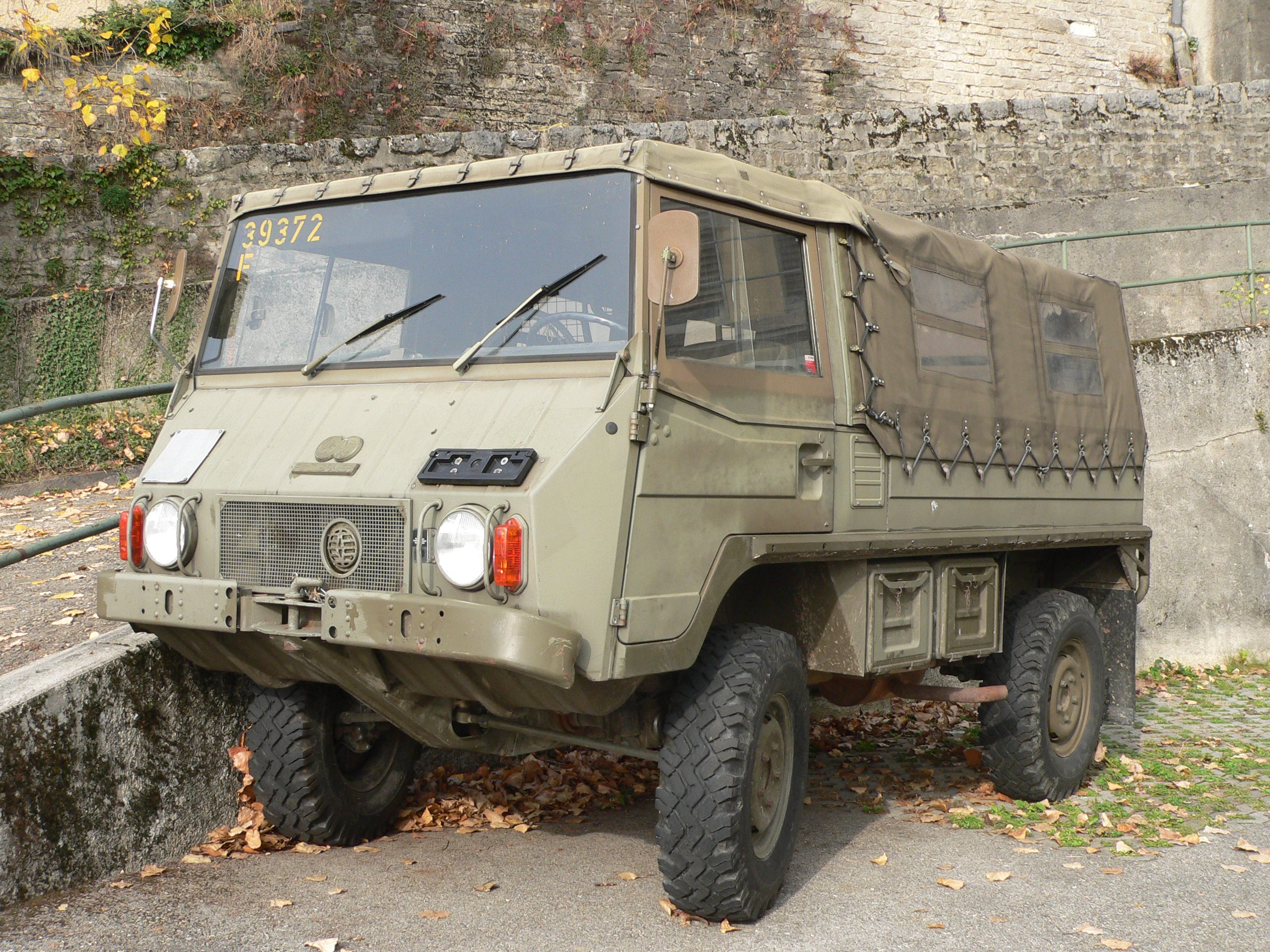 Pinzgauer vehicle of the Swiss Army